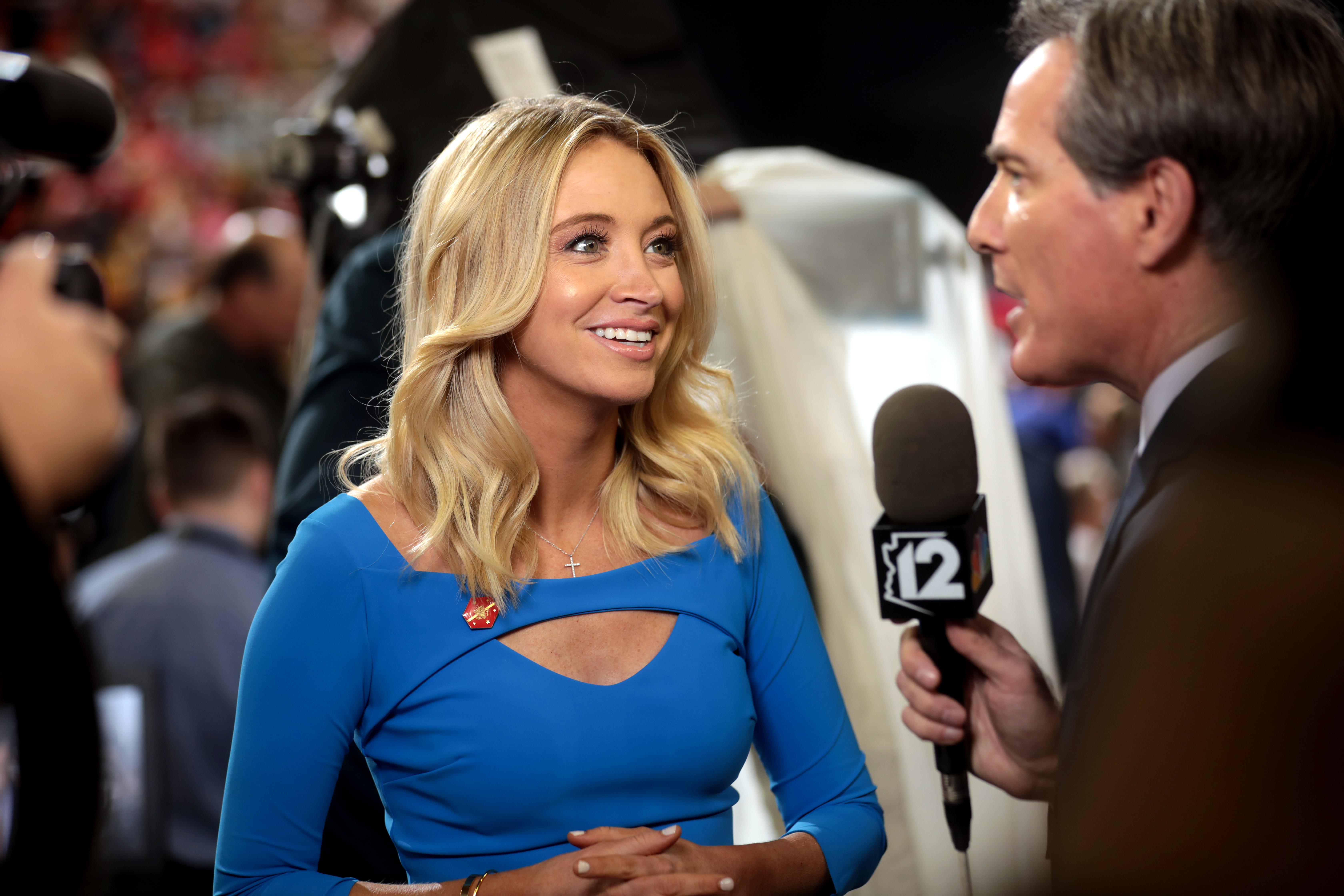 Kayleigh McEnany speaking with the media at a "Keep America Great" rally for President of the United States Donald Trump at Arizona Veterans Memorial Coliseum in Phoenix, Arizona.